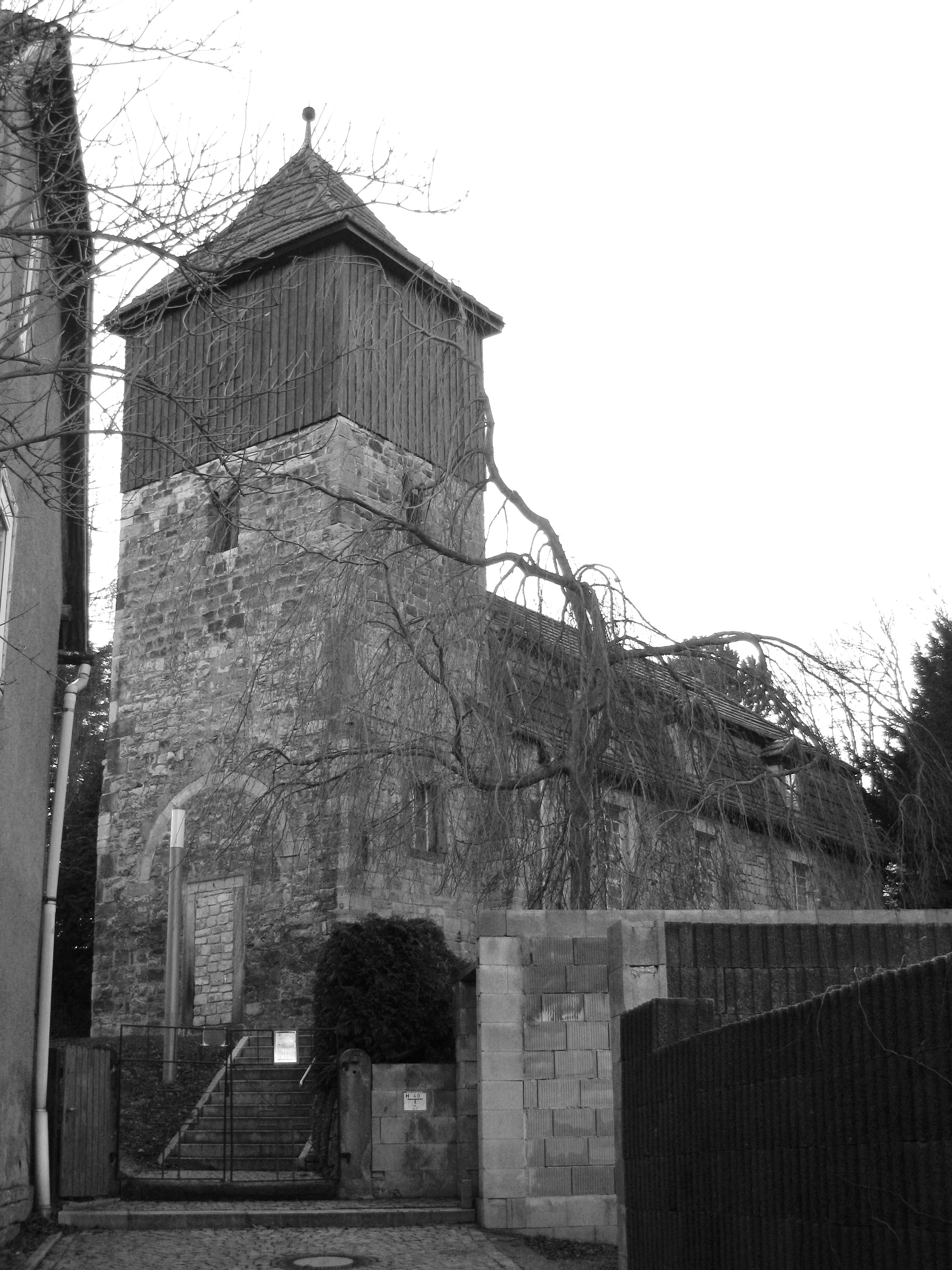 Saint John church in Angelhausen, Arnstadt